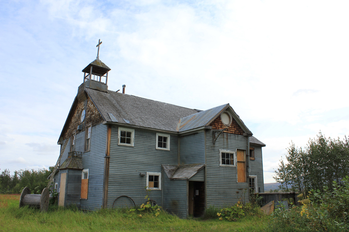 Former Catholic Mission at Pilgrim Hot Springs on the Pilgrim River, Imuruk Basin Image ID: line5187, NOAA's America's Coastlines Collection Location: Alaska, Seward Peninsula Photo Date: 2010 August